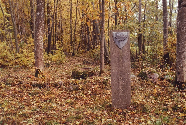 Skuodas district, Lithuania